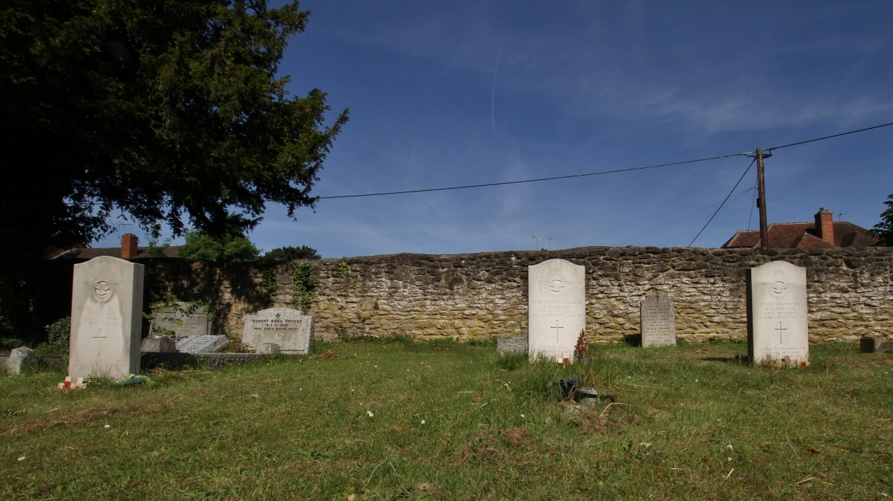 Headstones in the churchyard of the Roman Catholic church of Our Lady and St Edmund, Vineyard, Abingdon, Oxfordshire (formerly Berkshire). The three CWGC headstones in the foreground are of RAF Aircraftman 1 R Thorley, Flt/Lt RG Wilcox & Flt/Sgt J Zarecky, all of whom were killed in the Sutton Wick air crash on 5 March 1957